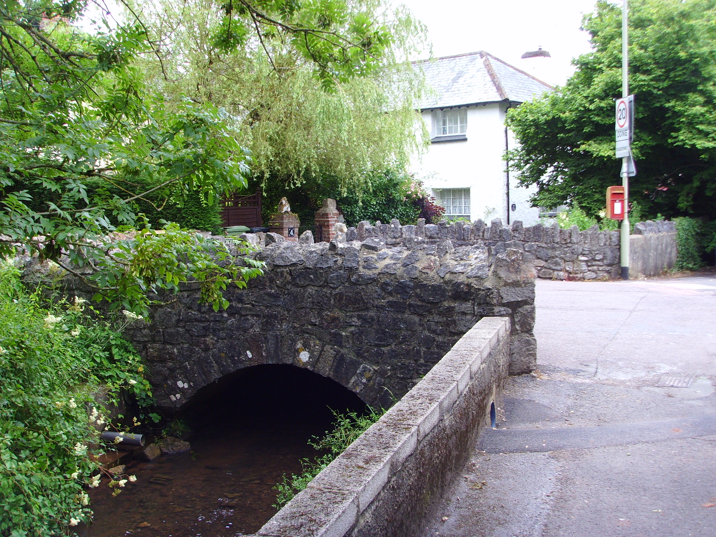 A bridge in the old part of Kingskerswell, Devon, UK